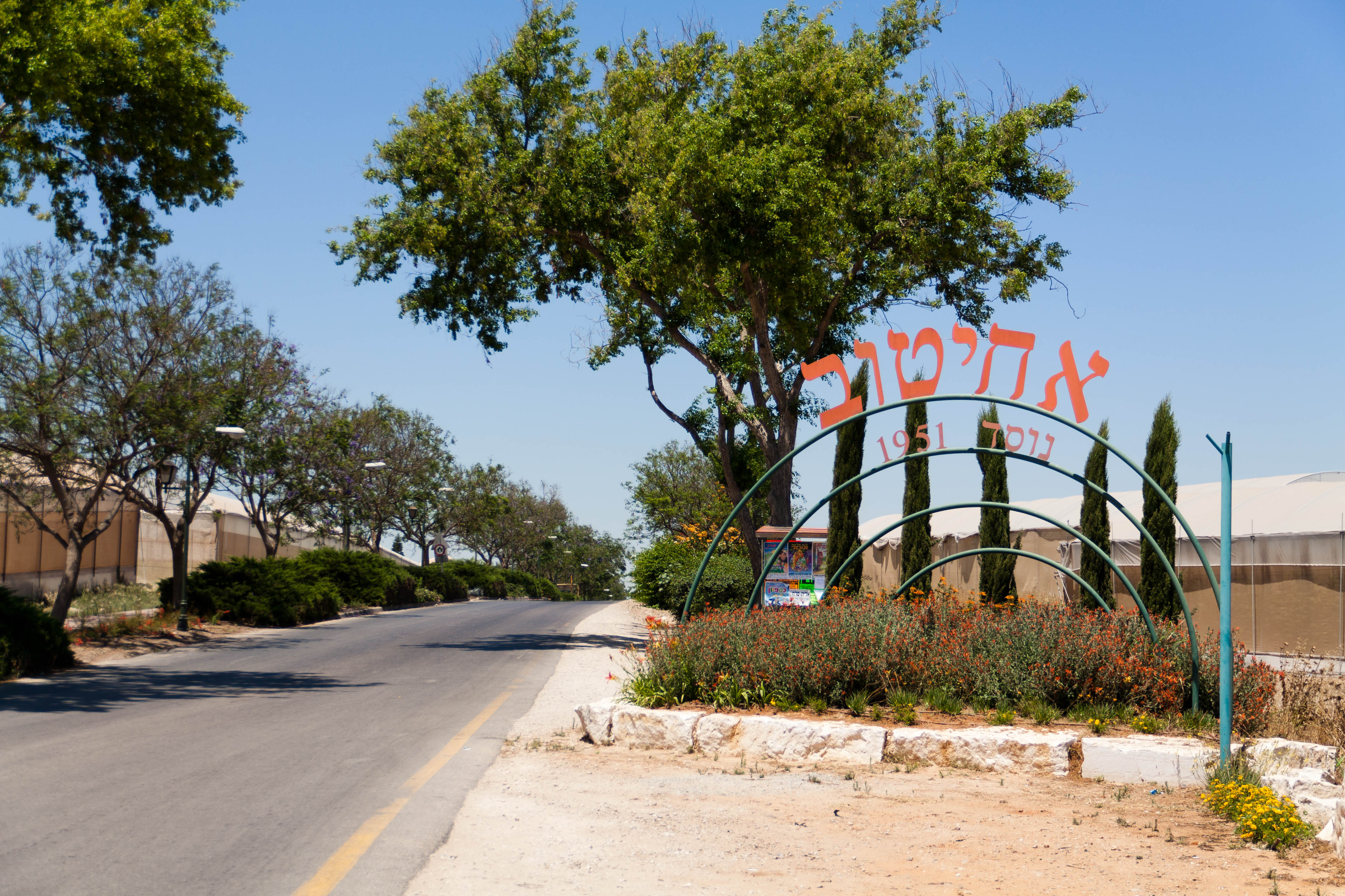 Entrance to Ahuituv